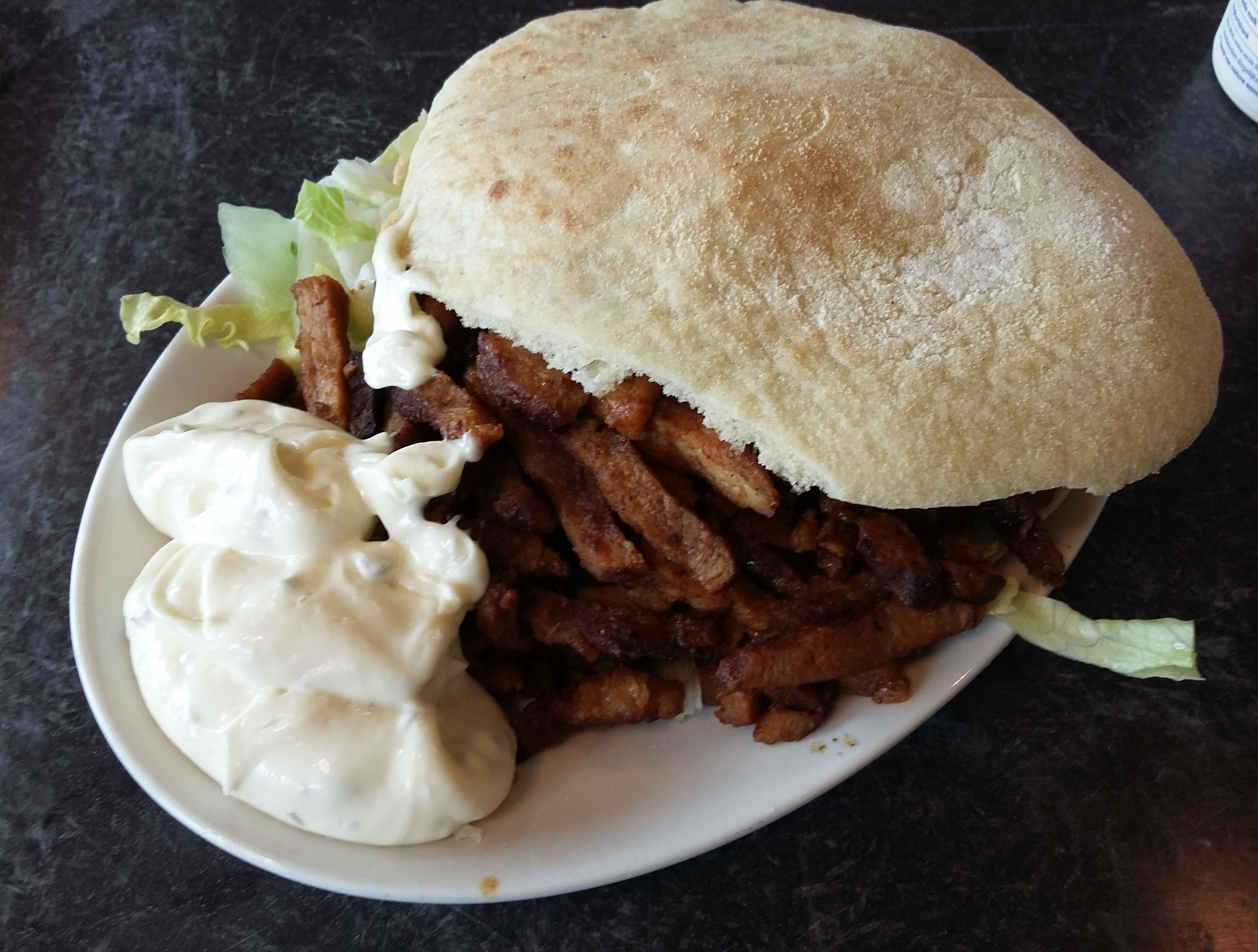 A pita with Shawarma.